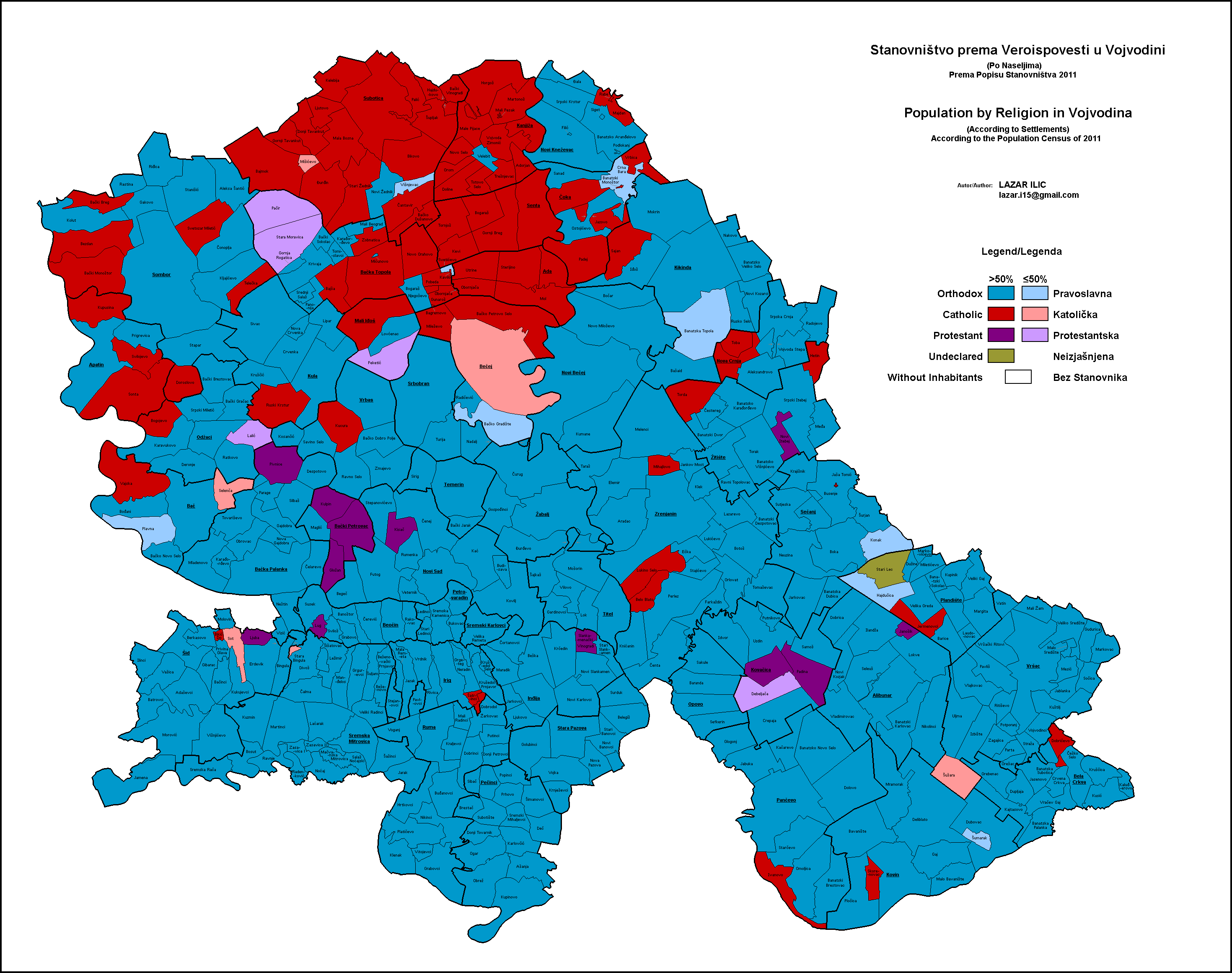 This is an religious map of Vojvodina, according to the 2011 population census. Српски (ћирилица): Ovo je verska karta Vojvodine, po popisu stanovnistva 2011ve godine.